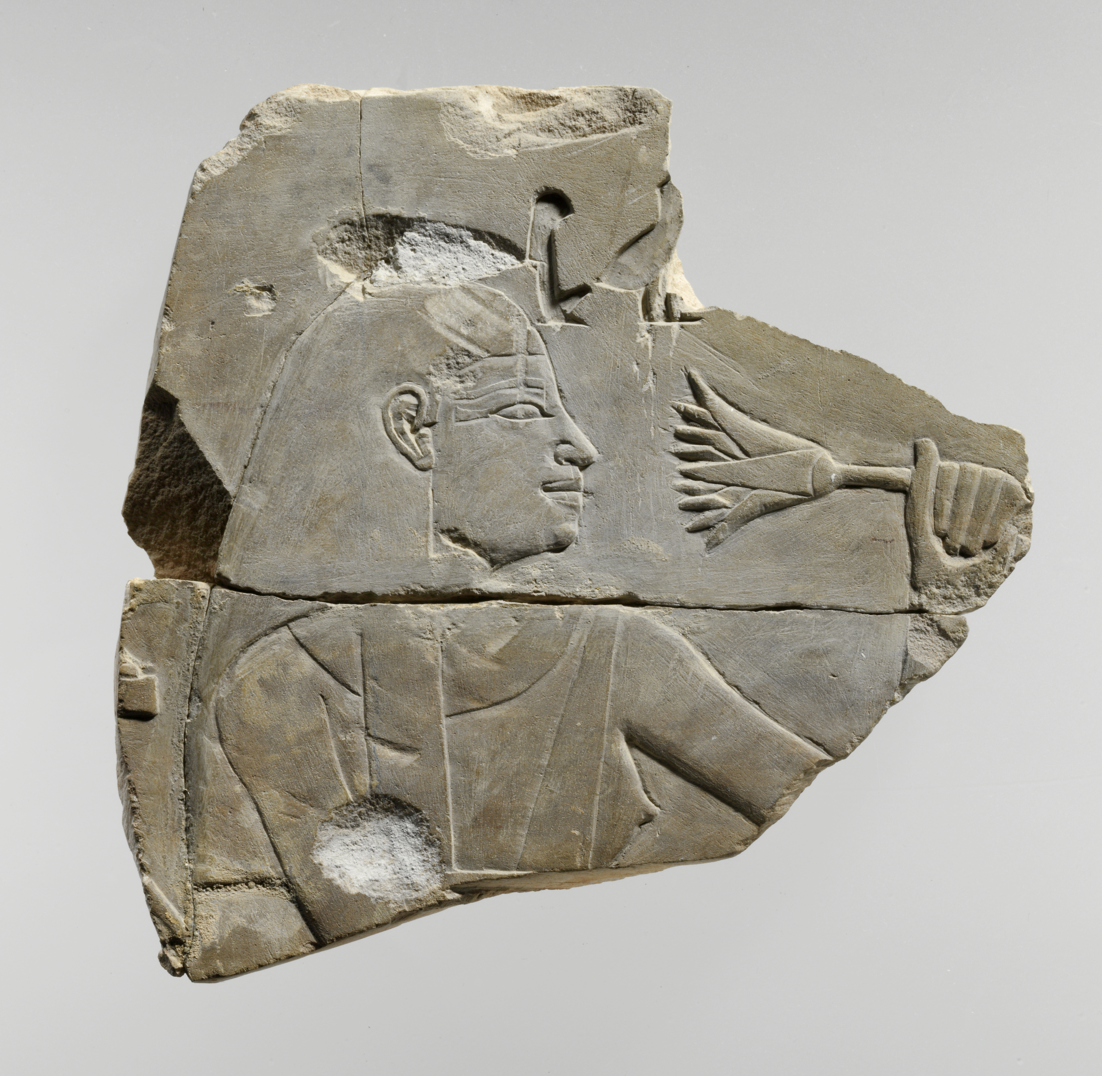 Relief, Tomb of Heri (TT 12), woman, Mesu